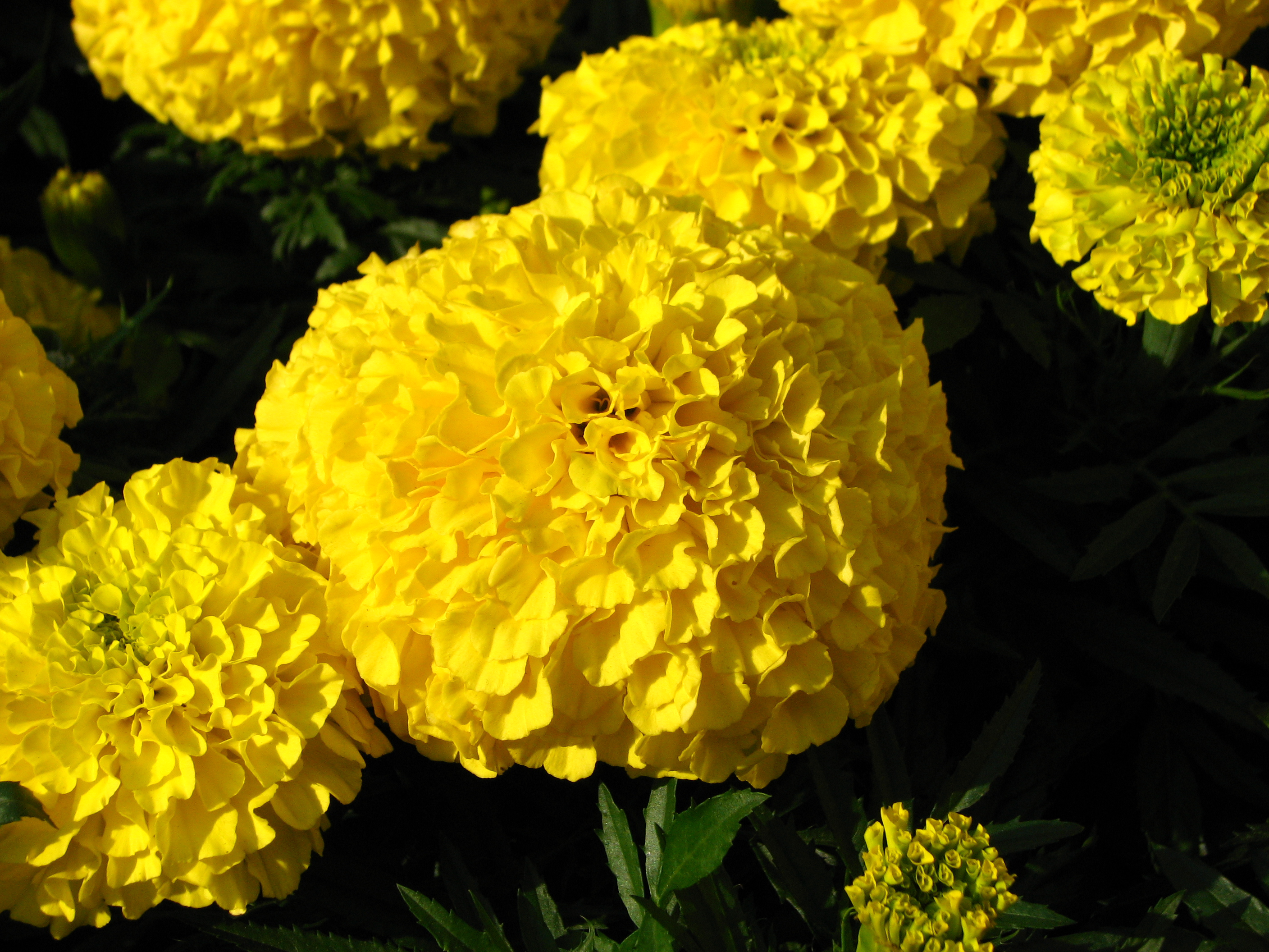 Flower beds in park Kolomenskoye (Moscow).